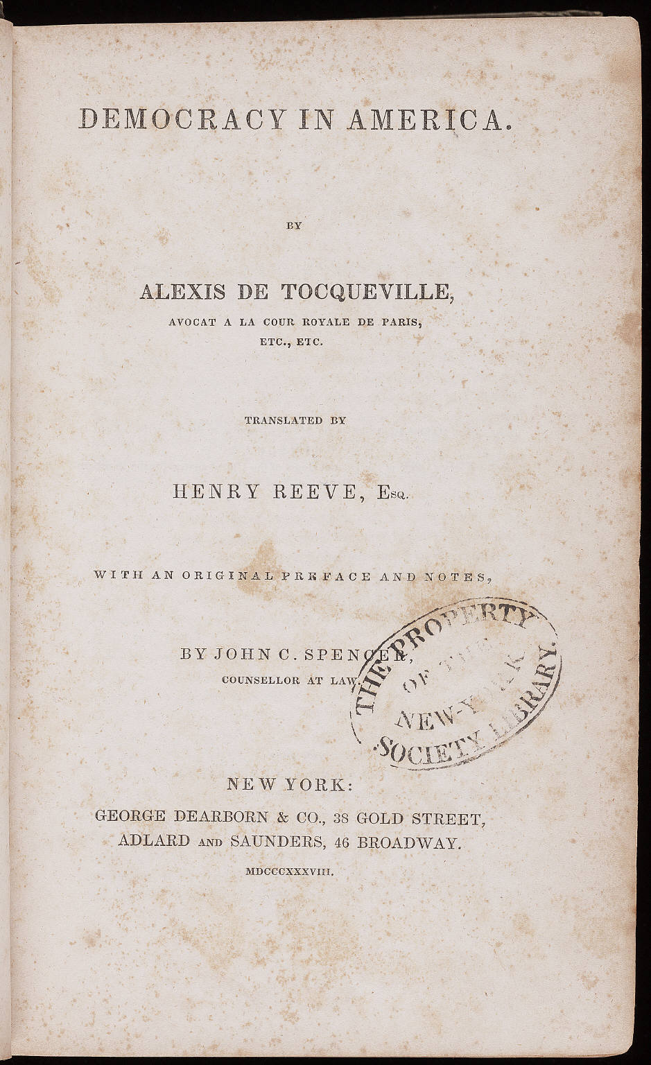 Title page of "Democracy in America," by the French author and traveler Alexis de Tocqueville, translated by Henry Reeve, with an original preface and notes by John C. Spencer. Printed by George Dearborn & Co., Adlard and Saunders, New York.[1]